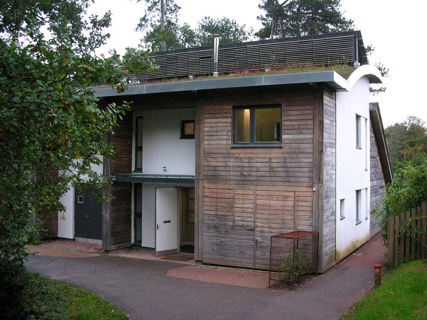 Northern side of The House of the Future showing the building's front door and alpine garden roof. ThotF was designed by Jestico & Whiles in 1999 and built at St Fagans Museum of Welsh Life as an example of sustainable eco-living.